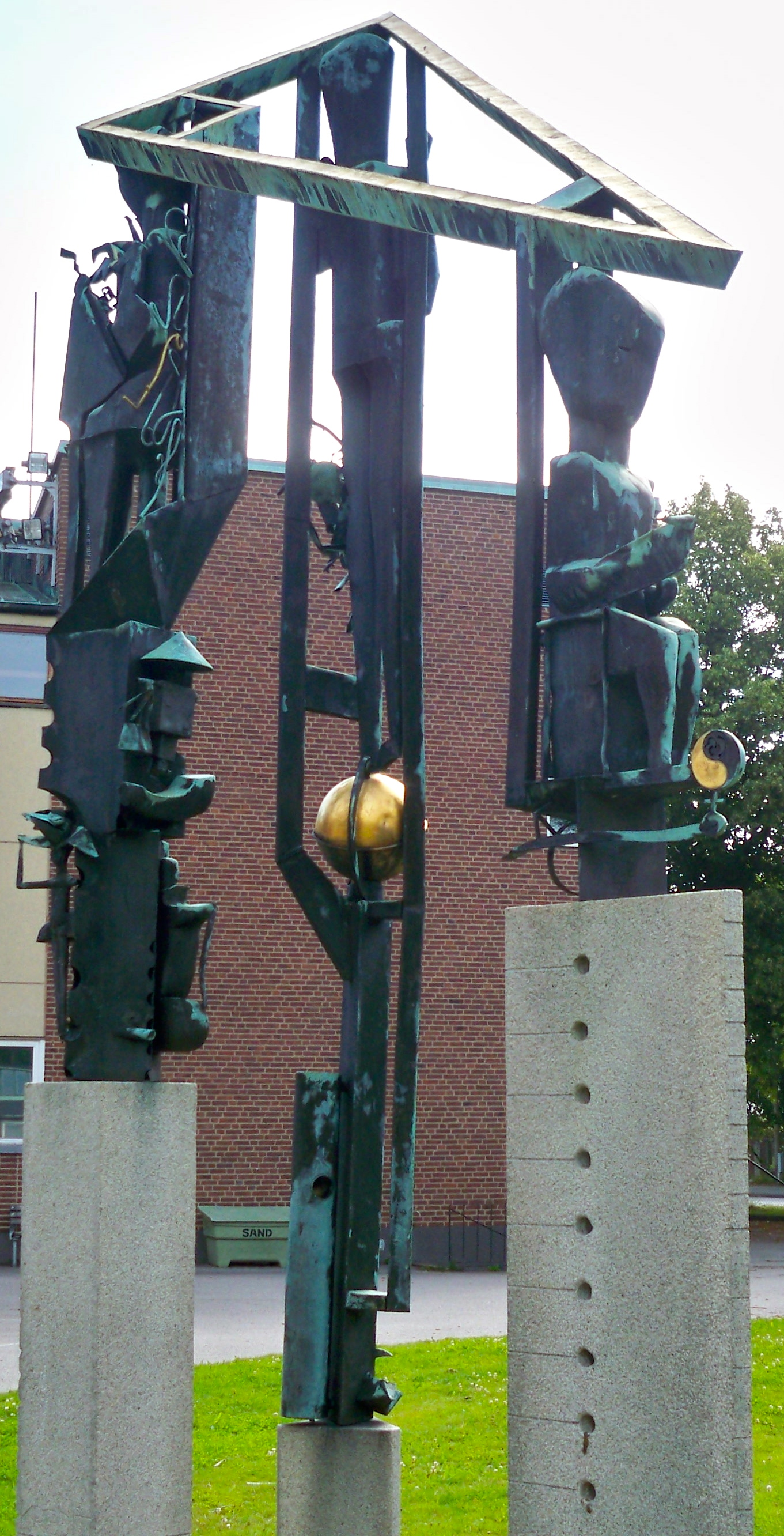 Pythagoras sats (Pythagorean theorem) is a copper and granite sculpture by the Swedish sculptor Olle Adrin (1918-1988). It was inaugurated in 1956 on a school-yard (Särlaskolans gård) in the city of Borås, Sweden.